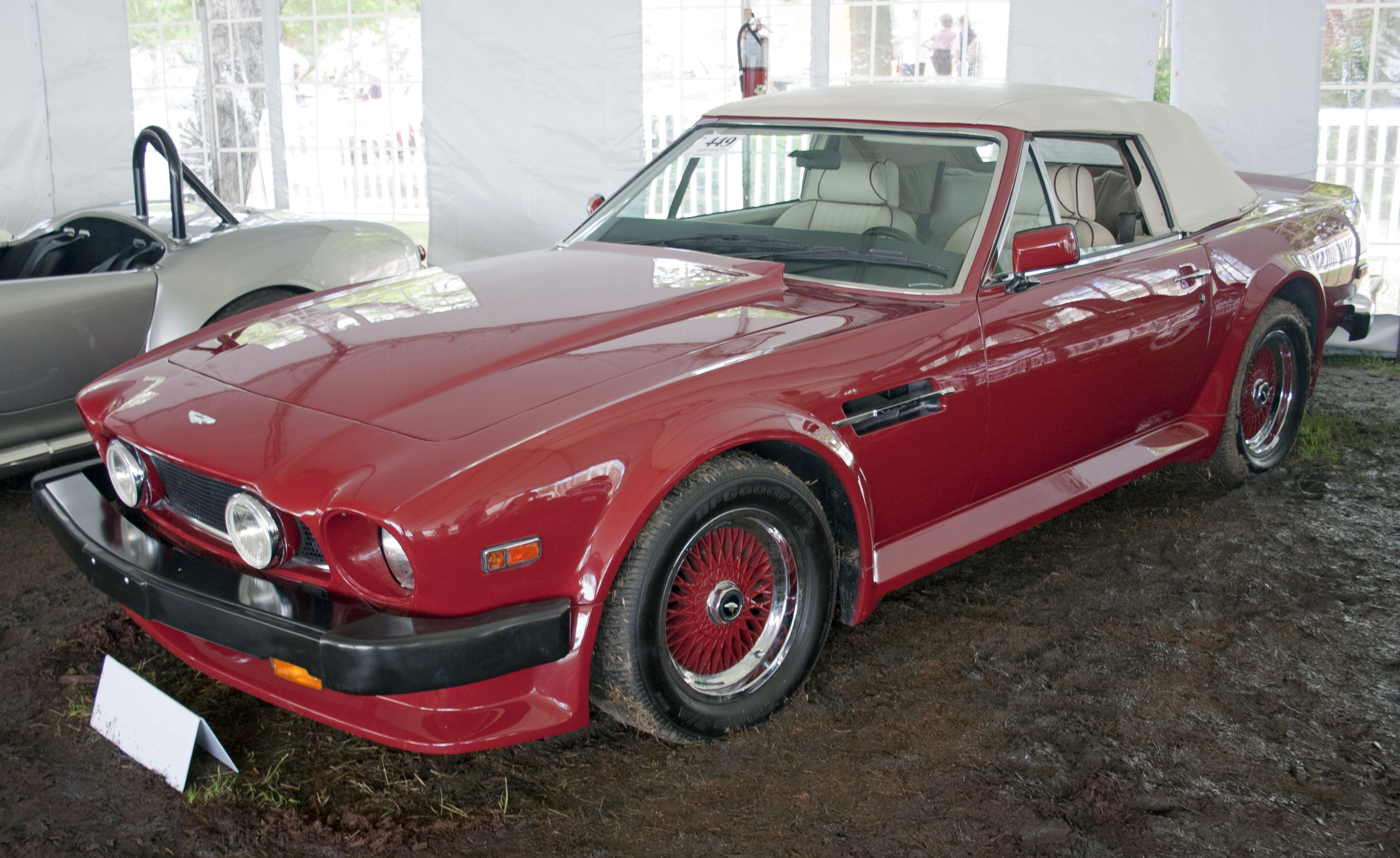 1989 Aston Martin V8 Vantage Volante, chassis no SCFCV81V4KTL15829 and engine no V/585/5829/LFA. One of 58 Vantage Volantes built for the US (out of a total of 167 V8 Vantage Volantes), this automatic equipped car (built in August 1989) is the twentieth from last V8 Volante built. Seen at the Bonhams auction at the 2012 Greenwich Concours d'Elegance.